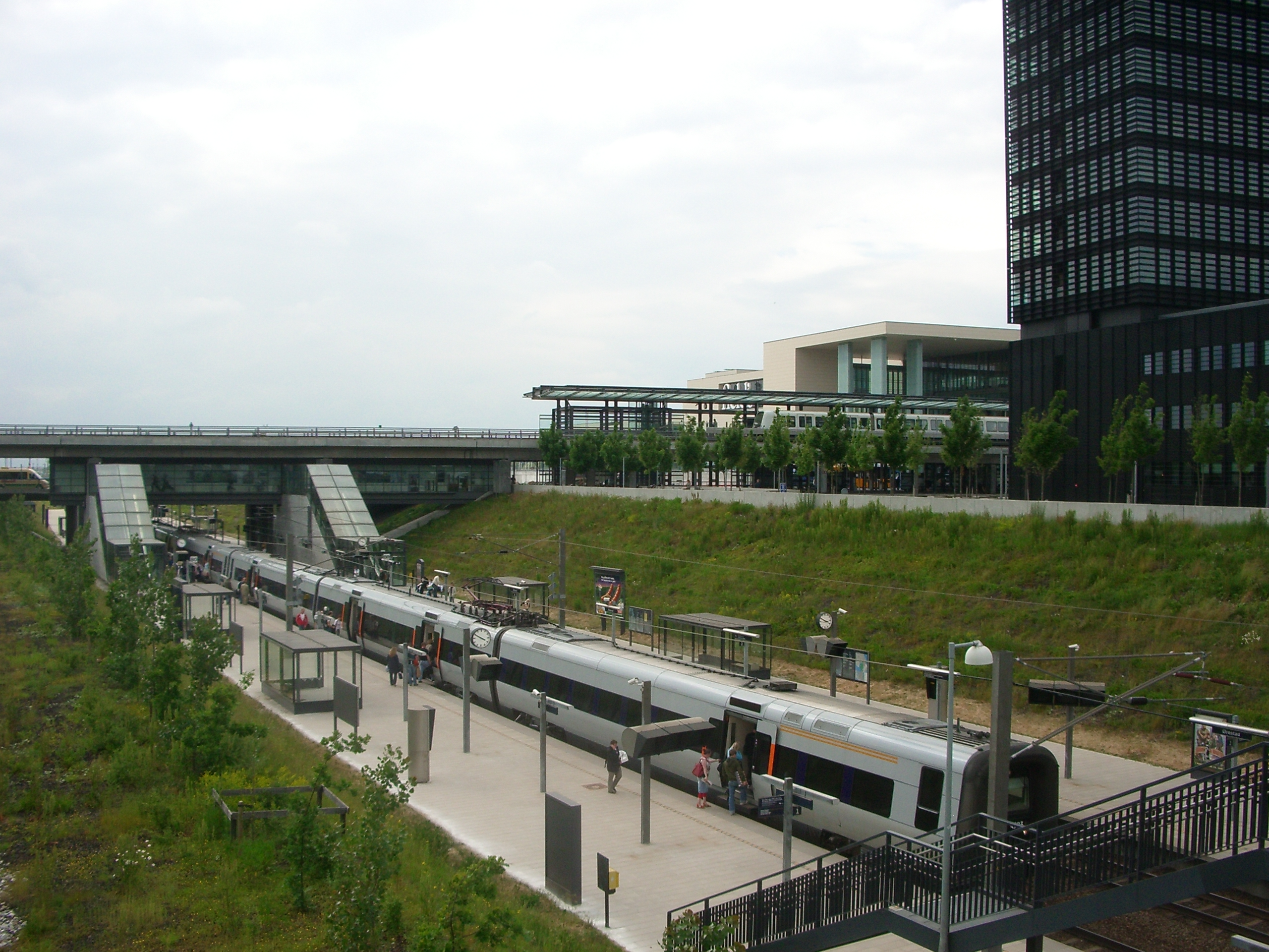 2006 picture of Ørestad station with regional and Metro trains at platforms. To the far right, Field's and Ferring Pharmaceuticals headquarters are visible.